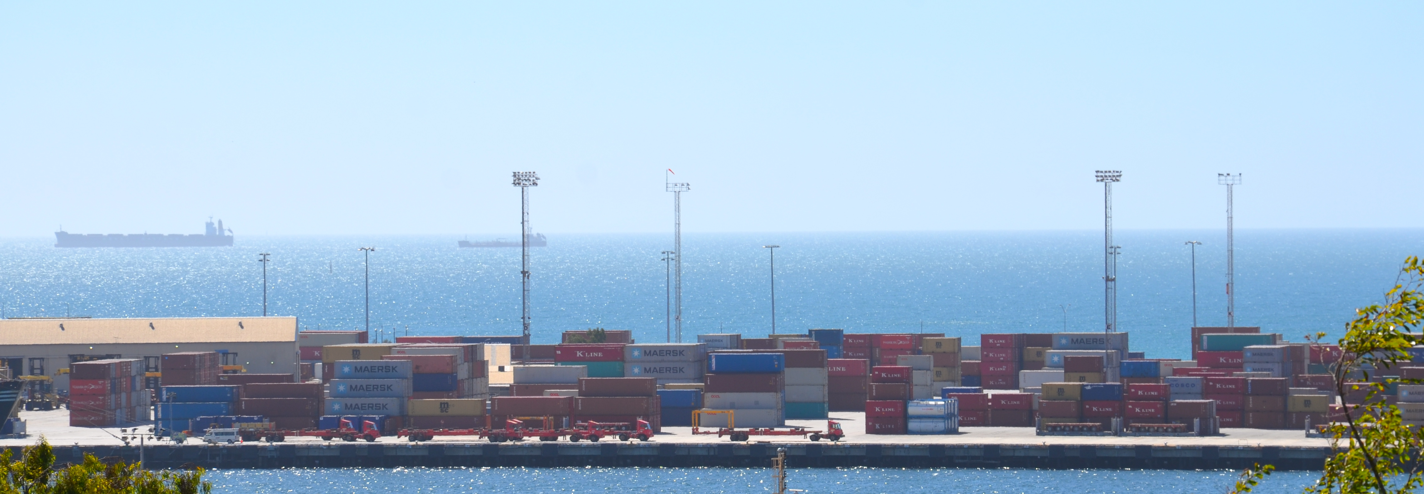 Ships at anchor in Gage roads from Burt Street, Fremantle looking over containers at North Quay